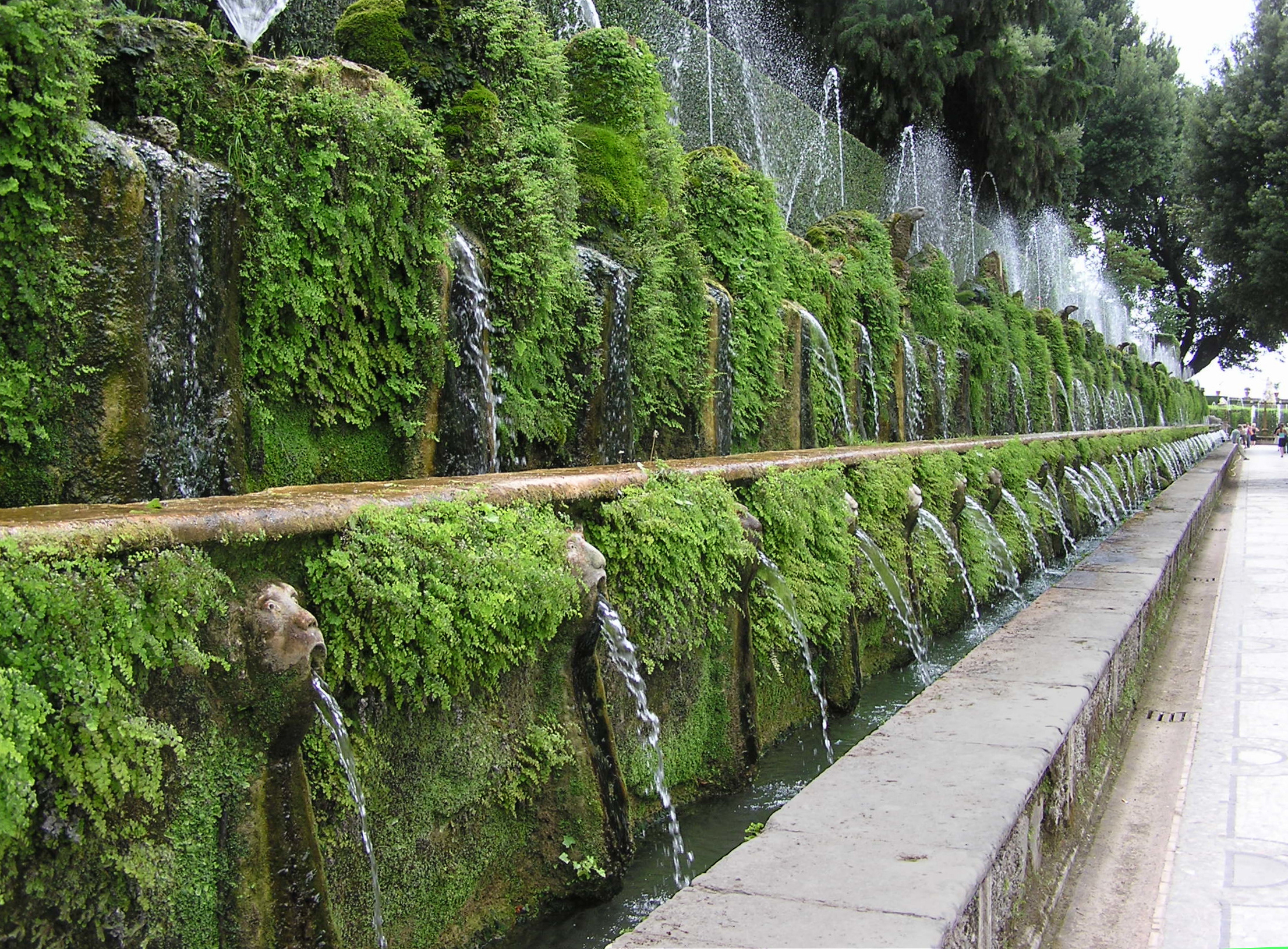 The One Hundred Fountain (Le Centro Fontane) at the Villa d'Este, Tivoli, Italy (near Rome).